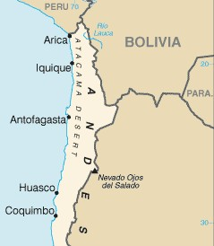 Map of Atacama Desert